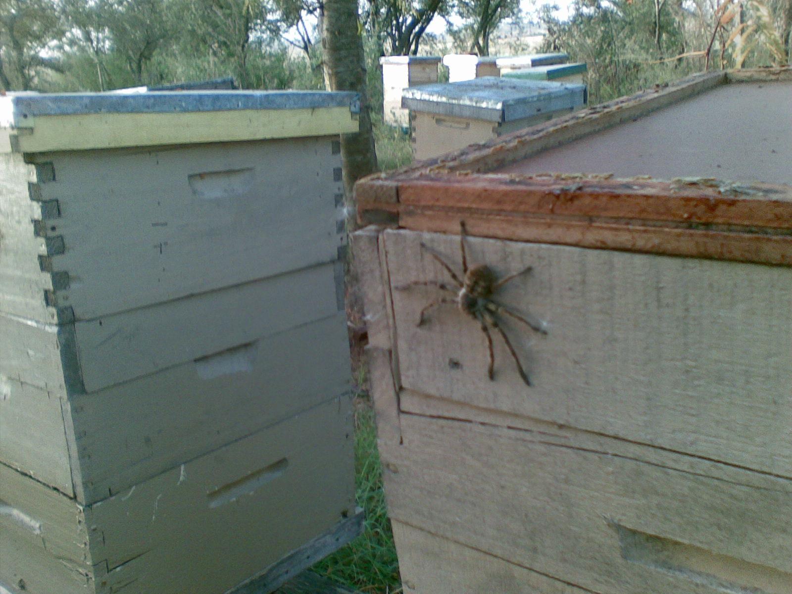 Individual of P. pitagoricus